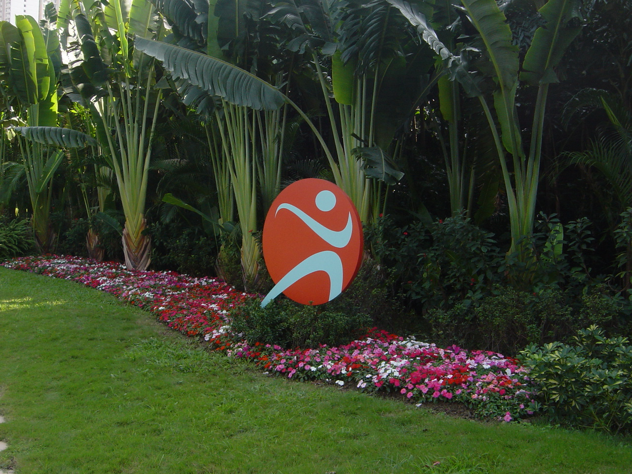 香港公主道一花圃。A flower nursery on Princess Margaret Road, Hong Kong.